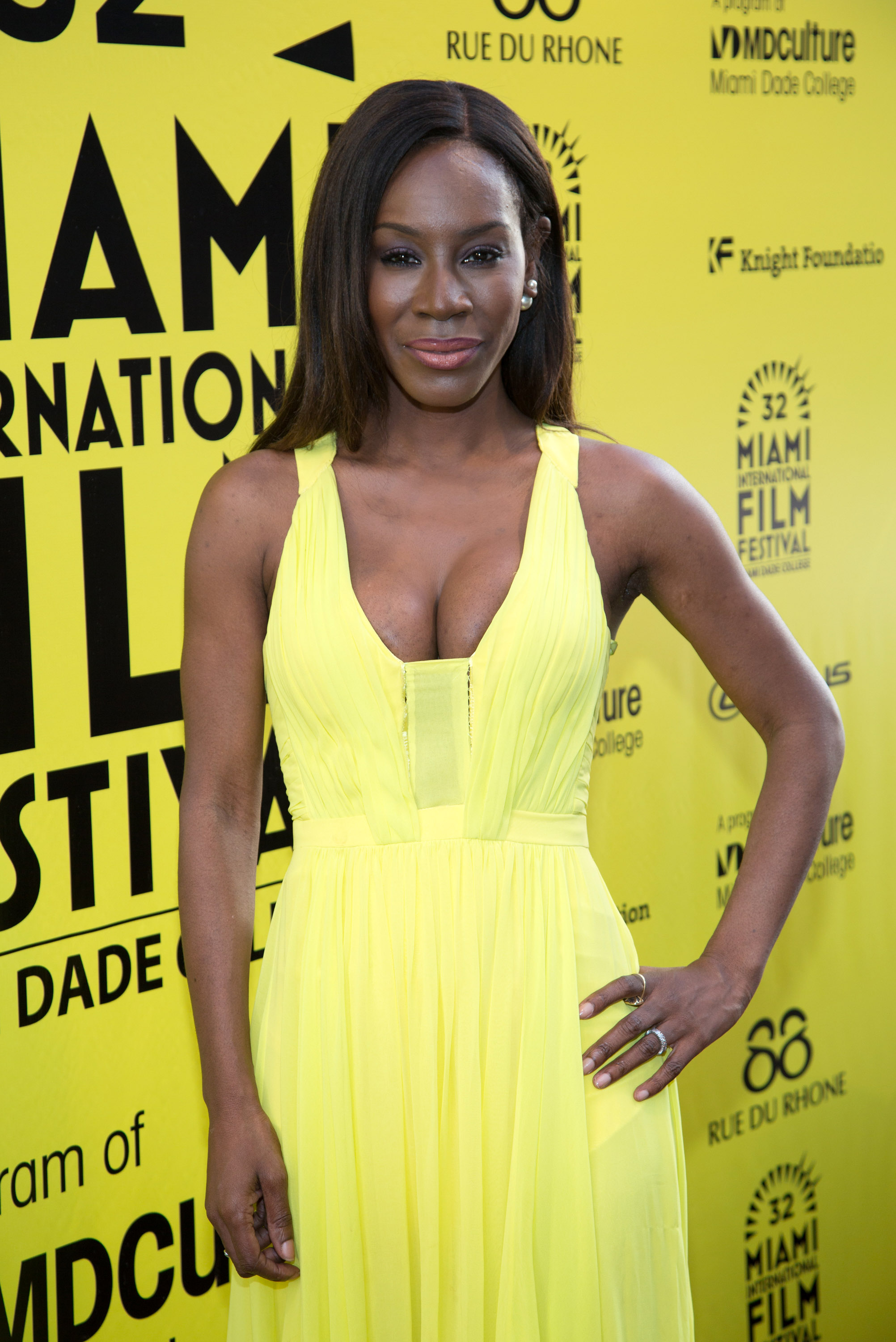 Amma Asante at the Miami Film Festival presentation of "Sidetracked"